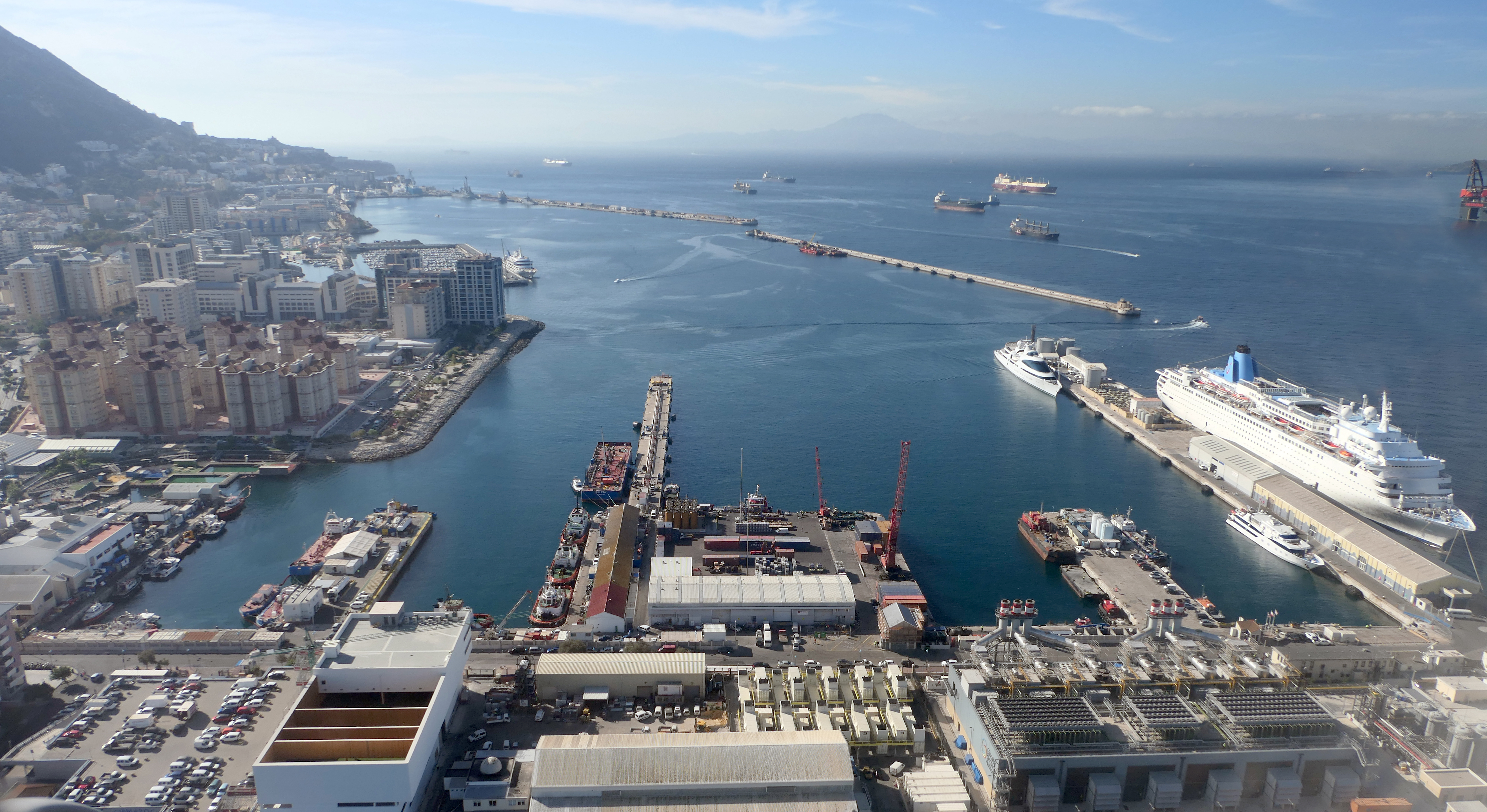 An aerial view of the Port of Gibraltar.